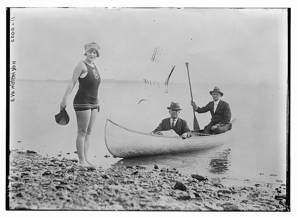 Bain News Service,, publisher. Eva Morrison circa 1912 1927 1 negative : glass ; 5 x 7 in. or smaller. Notes: Title from unverified data provided by the Bain News Service on the negatives or caption cards. Forms part of: George Grantham Bain Collection (Library of Congress). Subjects: Swimming Women Format: Glass negatives. Repository: Library of Congress, Prints and Photographs Division, Washington, D.C. 20540 USA, General information about the Bain Collection is available at Persistent URL: Call Number: LC-B2- 2200-11